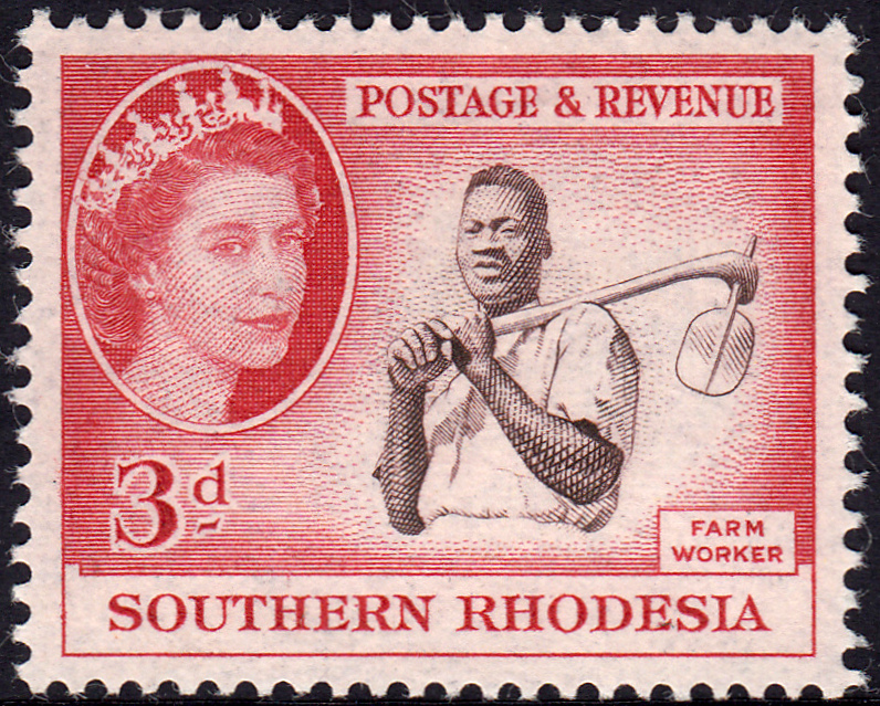 Postage stamp of Southern Rhodesia, 1953, 3d, scott#84. Farm worker